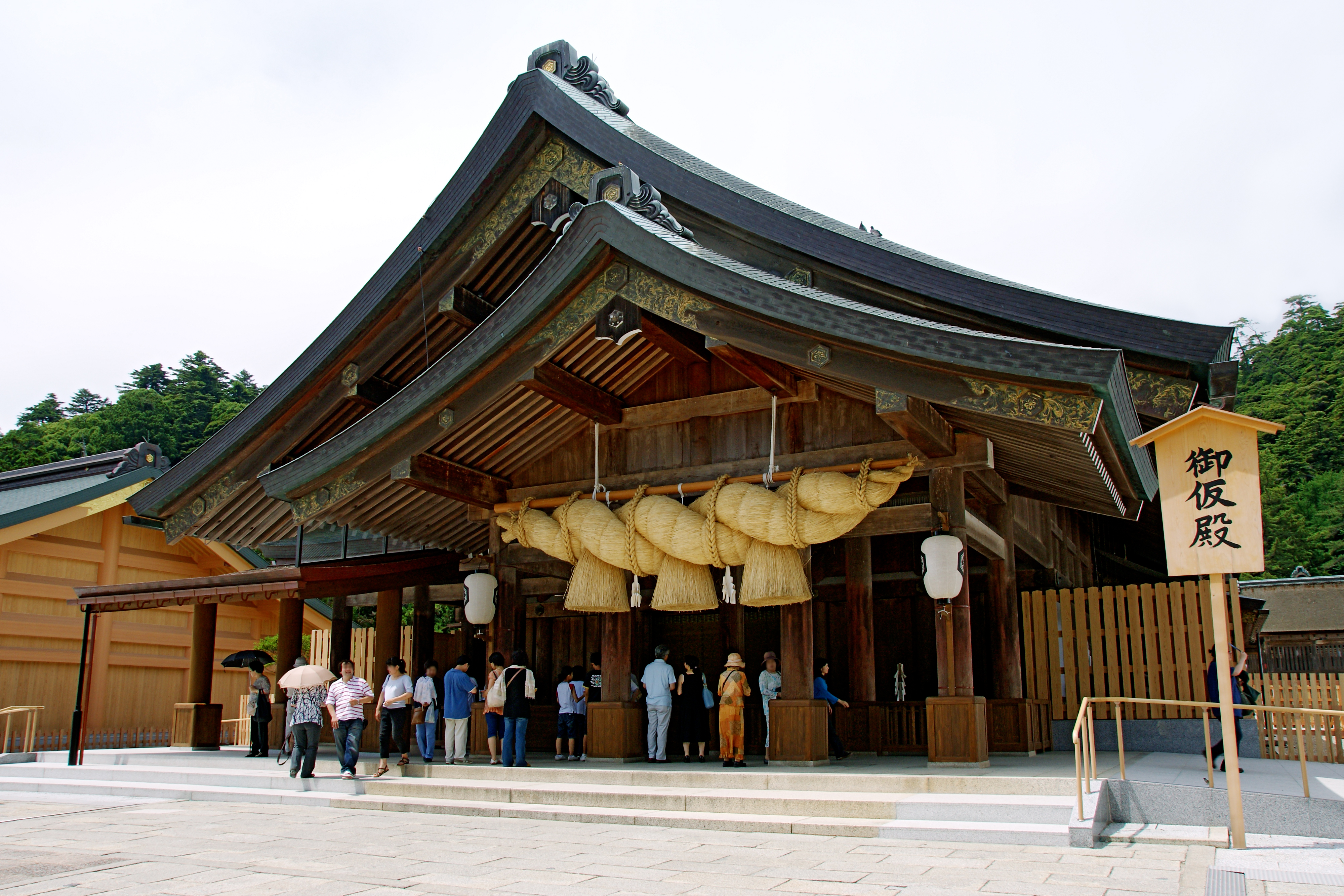 Izumo Taisya, Izumo, Shimane prefecture, Japan